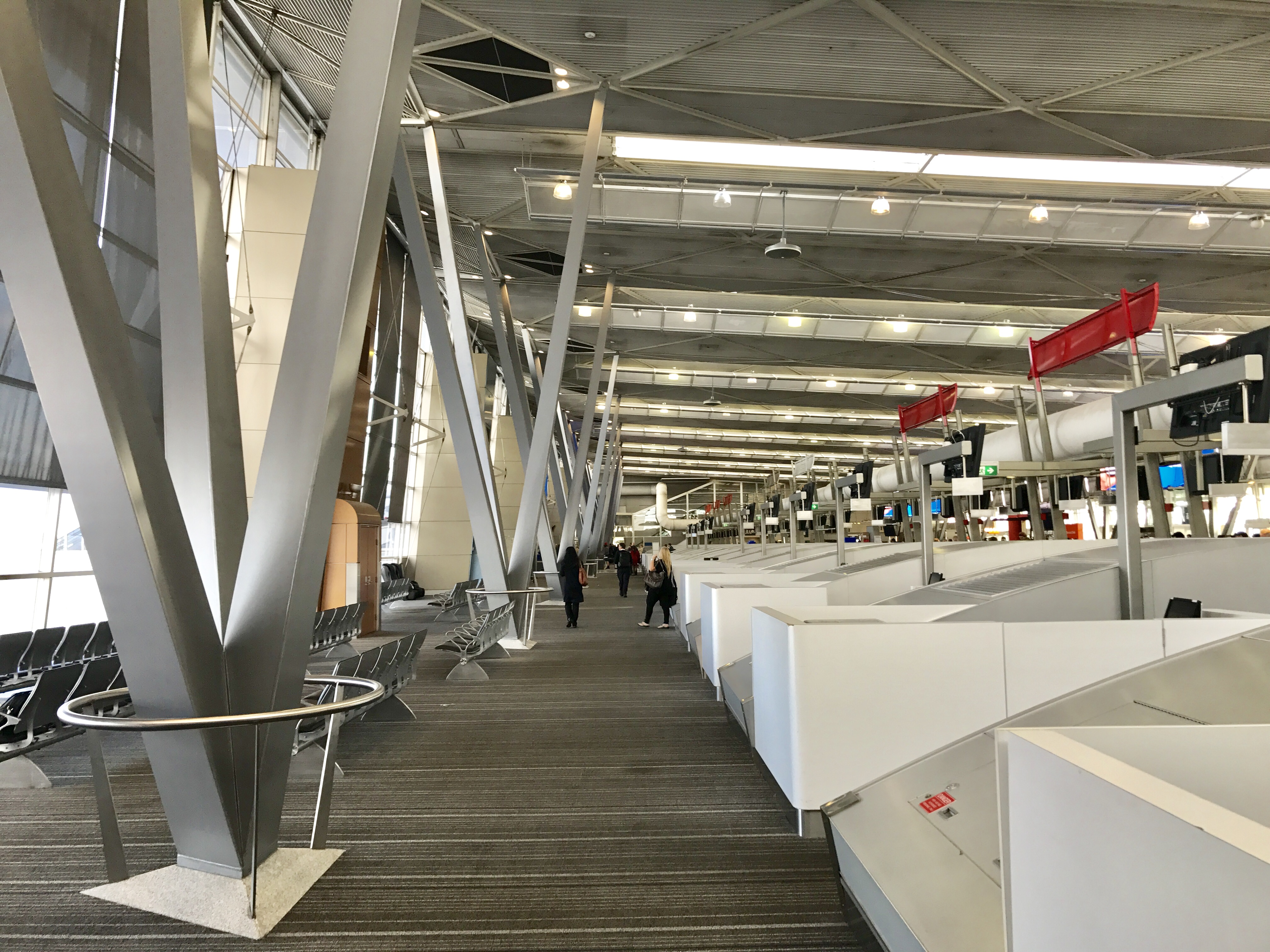 Sydney Airport Virgin Australia Terminal